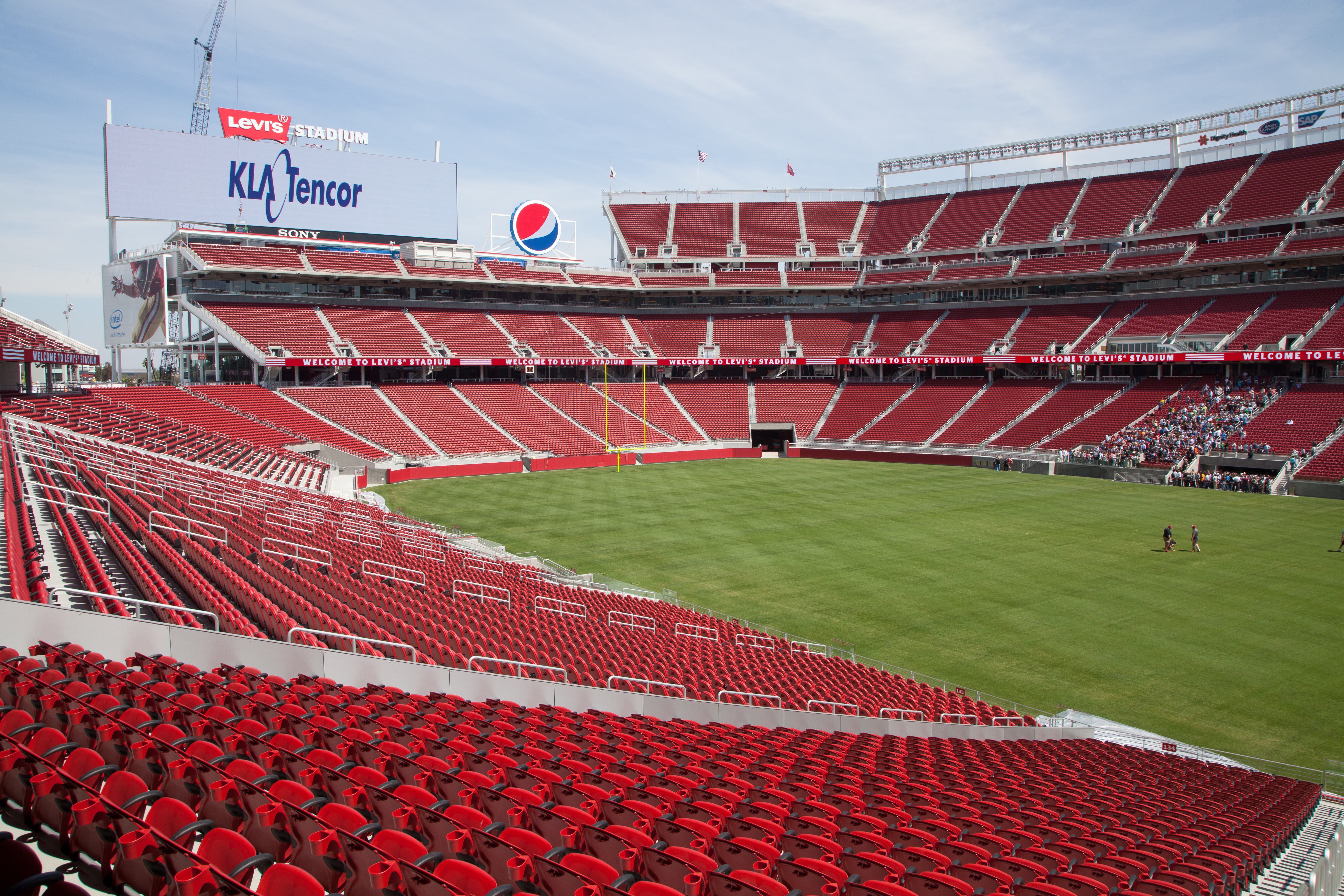 Levi's Stadium interior